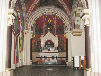 Chapel of the Martyrs, Basilica in Katowice Panewniki, Poland.